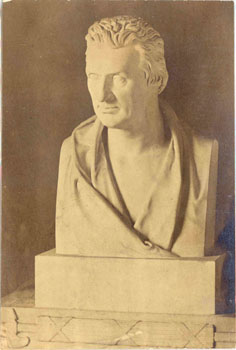 Bust of Francis Noel Clarke Mundy (1739-1815). photo by Richard Keene of Derby Undated, but possibly taken in the early to mid-1860s Format: Albumen print